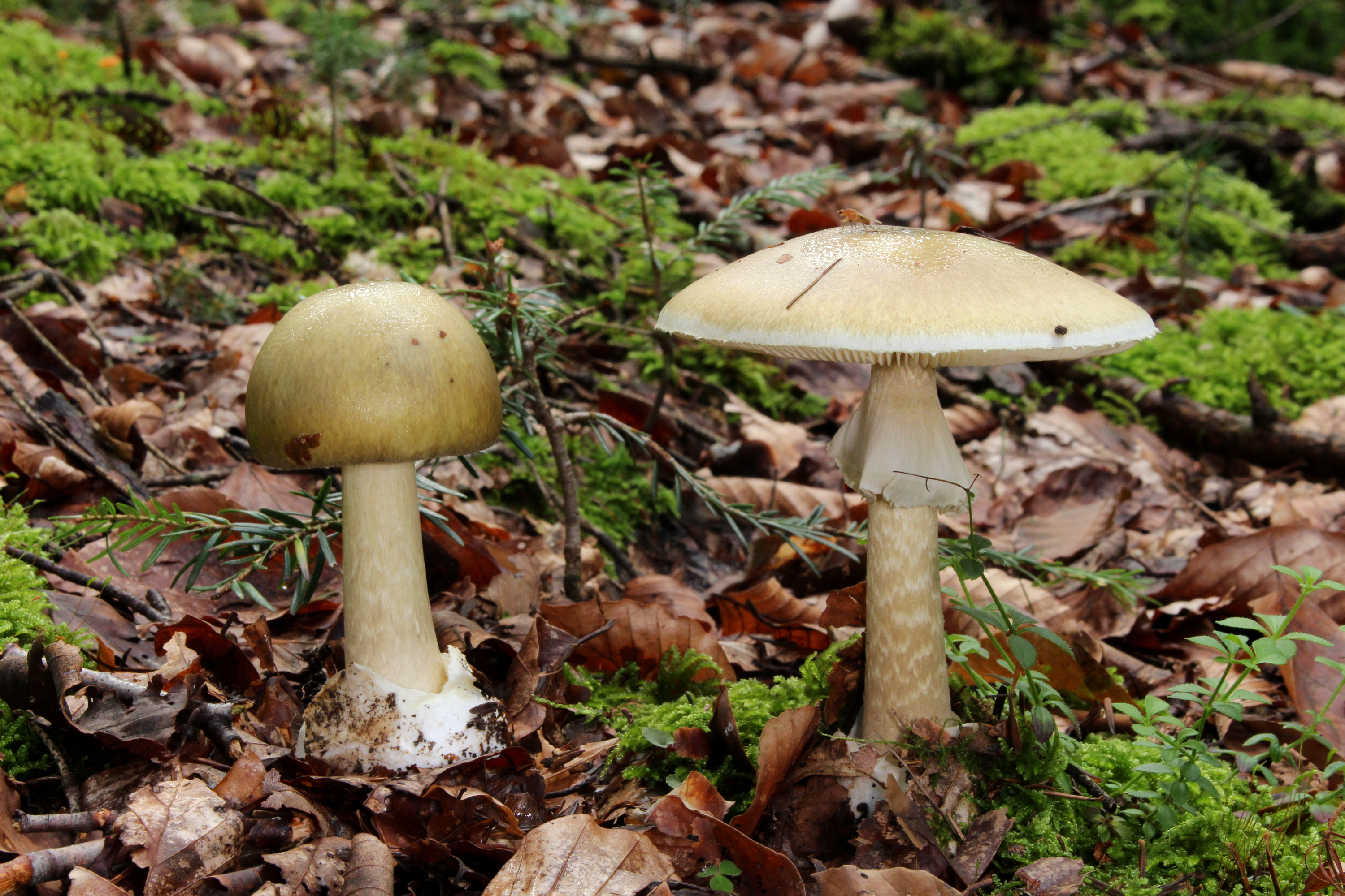 Death cap, Amanita phalloides, Location: Germany, Erbach, Ringingen